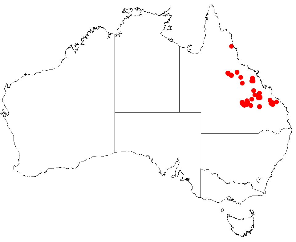 Bossiaea carinalis Occurrence data downloaded from 11 September 2018 AVH